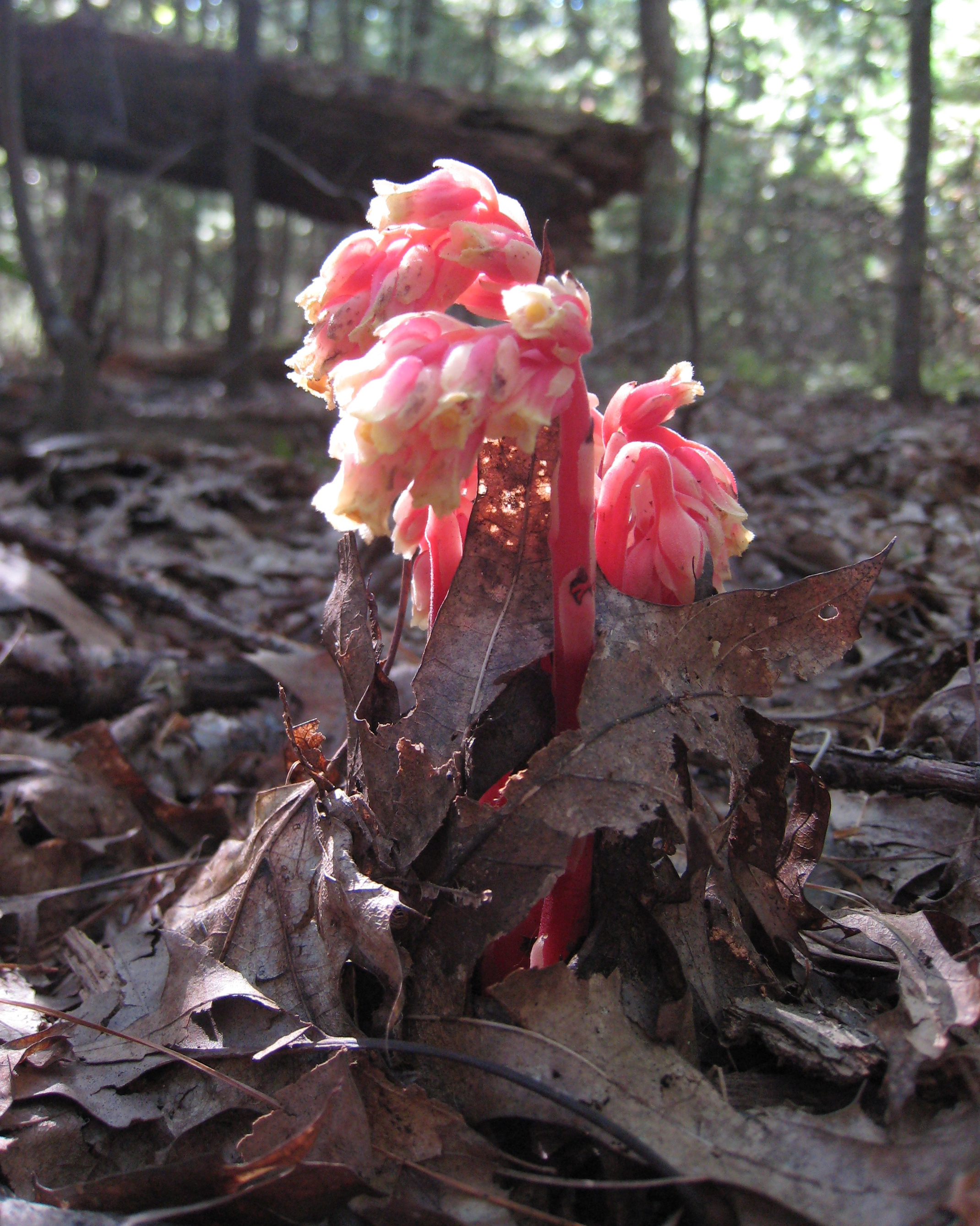 Red Monotropa hypopitys in Sudbury, MA